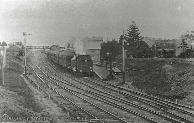 Hurstville Railway Station Dated: c.1910 Digital ID: 17420_a014_a0140001083 Rights: We'd love to hear from you if you use our photos. Many other photos in our collection are available to view and browse on our website using Photo Investigator.